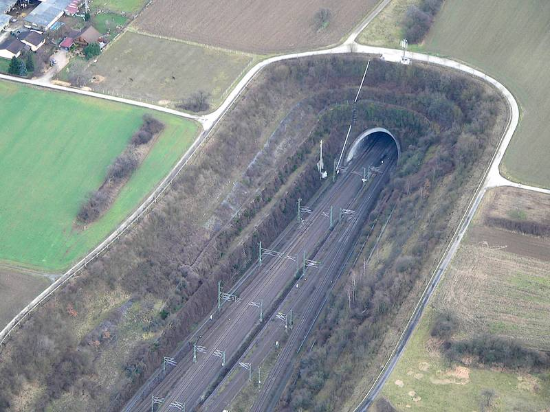 North entrance to Rollenberg tunnel with two tracks coming down from Heidelberg and a track from Bruchsal (coming from the right). The all join with the Mannheim-Stuttgart high-speed railway line (center). 49° 8'45.15"N 8°37'18.98"E